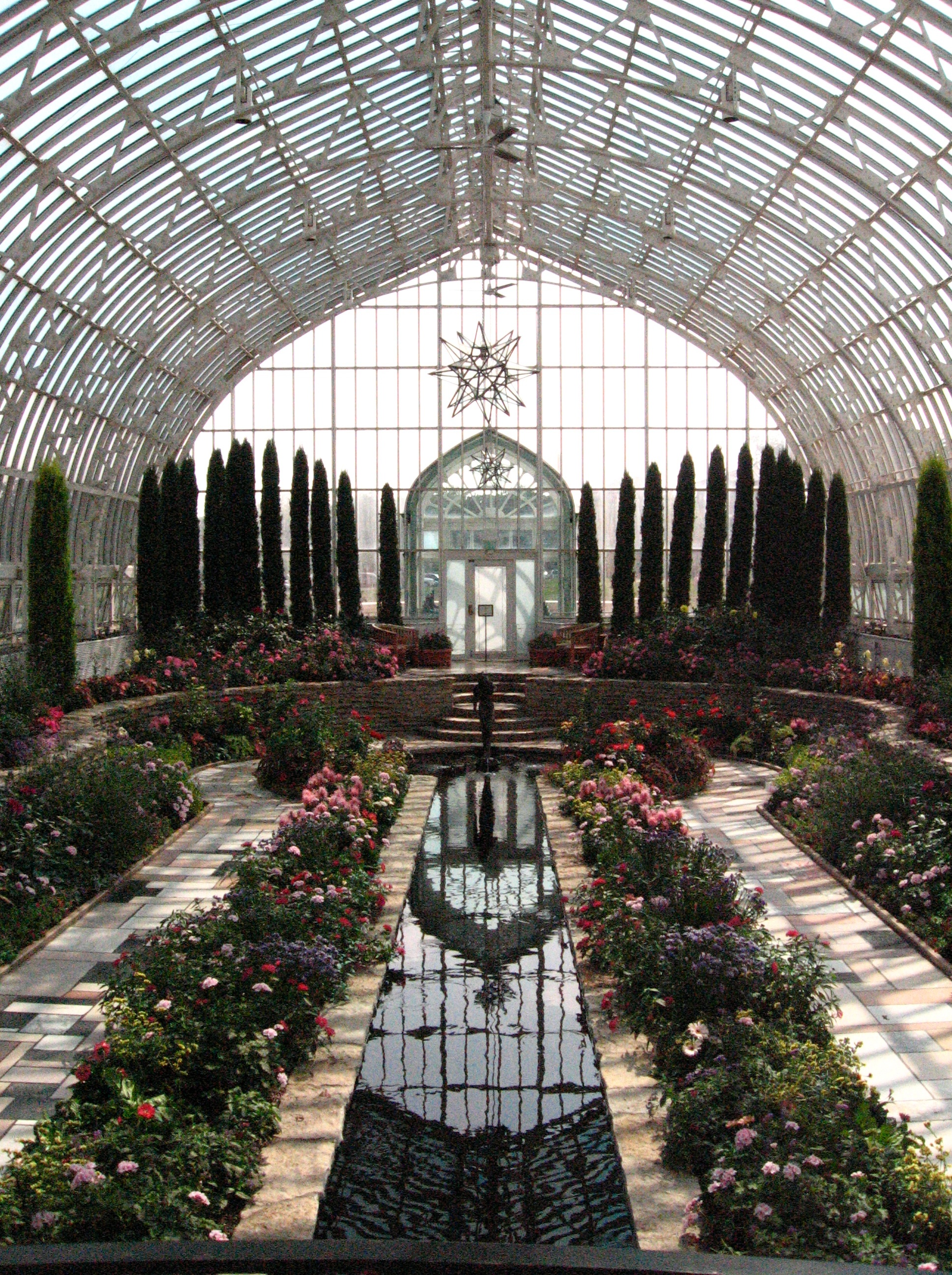 The sunken garden at Como Conservatory in St. Paul, Minnesota. Photo taken 1 August, 2007, on behalf of Natalie Martin by Robert Francis